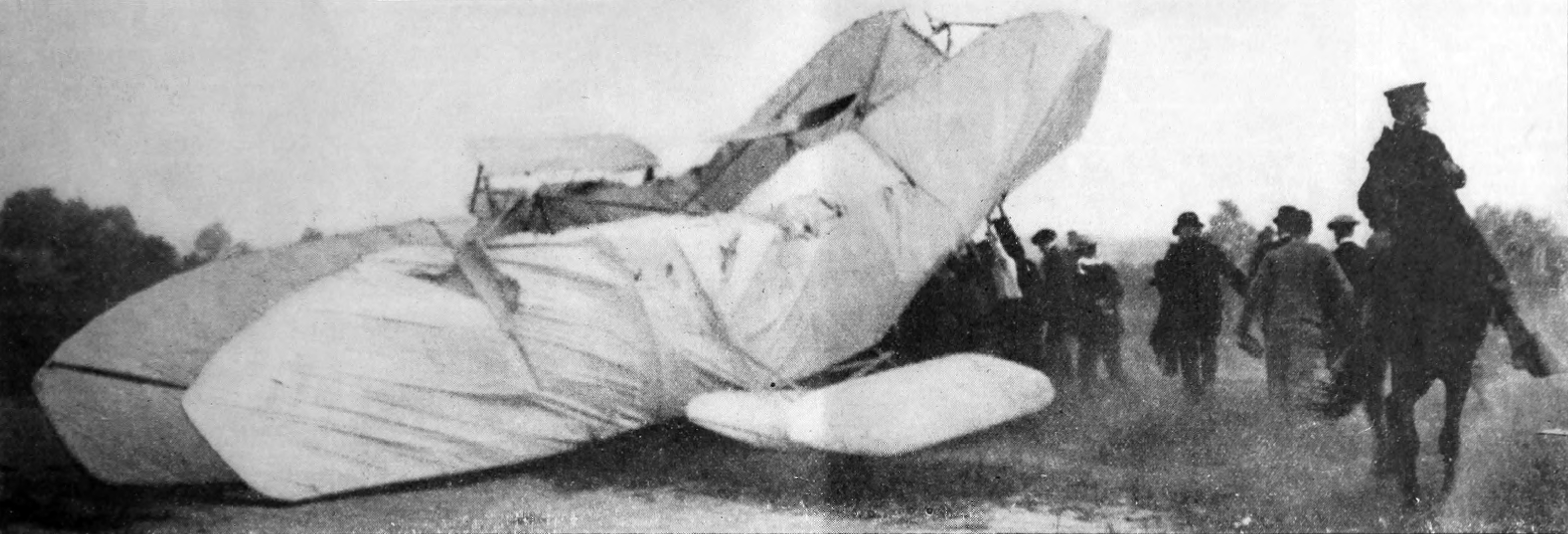 "The Tragic Flight at Fort Myer" — photograph of the aftermath of the crash on September 17, 1908 Caption:The collapsed Wright aeroplane photographed just after it struck the ground. At Fort Myer, on September 17, at a height of 75 feet, on a turn, one of the new nine-foot propeller blades was broken. The machine pitched to the ground, resulting in the death of Lieutenant Selfridge and the painful injury of Mr. Wright